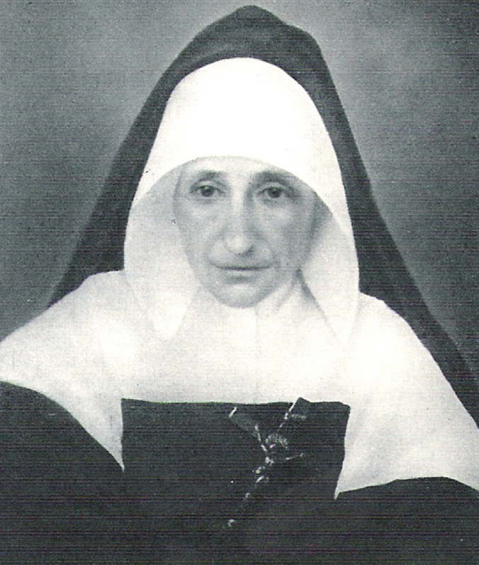 Marie Moreau (1788-1864), French nun, foundress of the Sœurs de la Providence de la Pommeraye